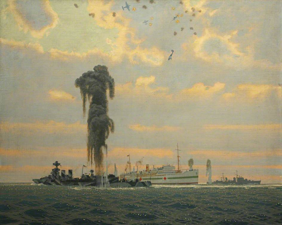 Rescue of the Hospital Ship Aba by HMS Coventry on 17 May 1941. (HMHS Aba). Royal Cornwall Museum.